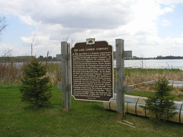 Rib Lake Lumber Company historic marker at public boat landing on Highway 102.